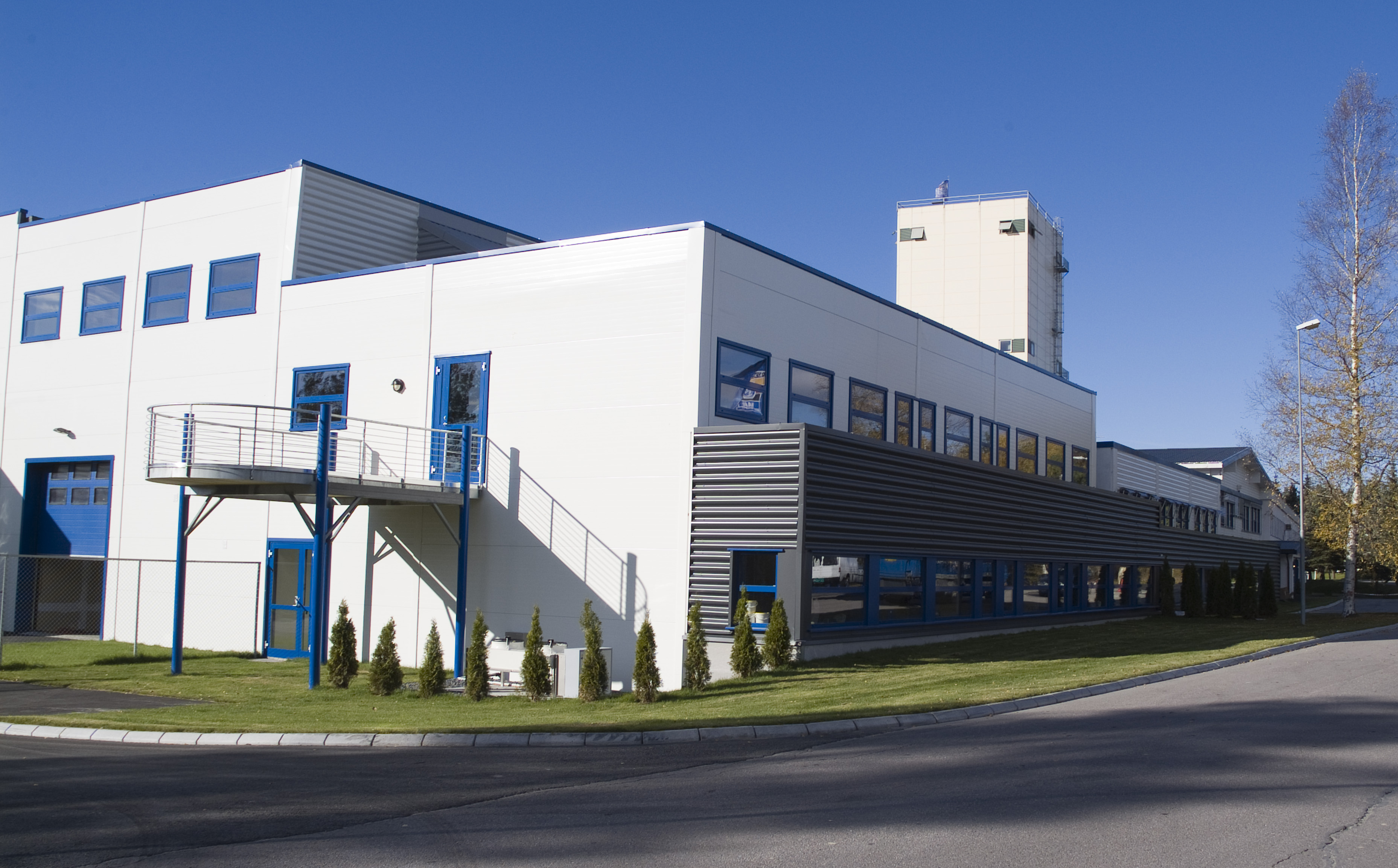 Rescon Mapei building in Sagstua, Norway.